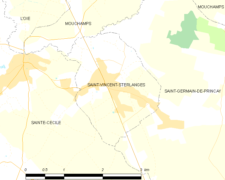 Map of French municipality Saint-Vincent-Sterlanges